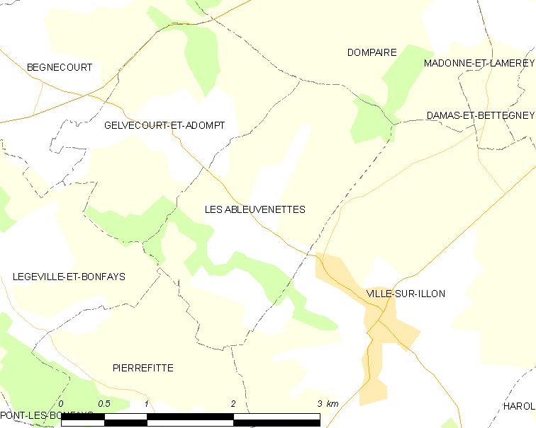 Map of French municipality Les Ableuvenettes